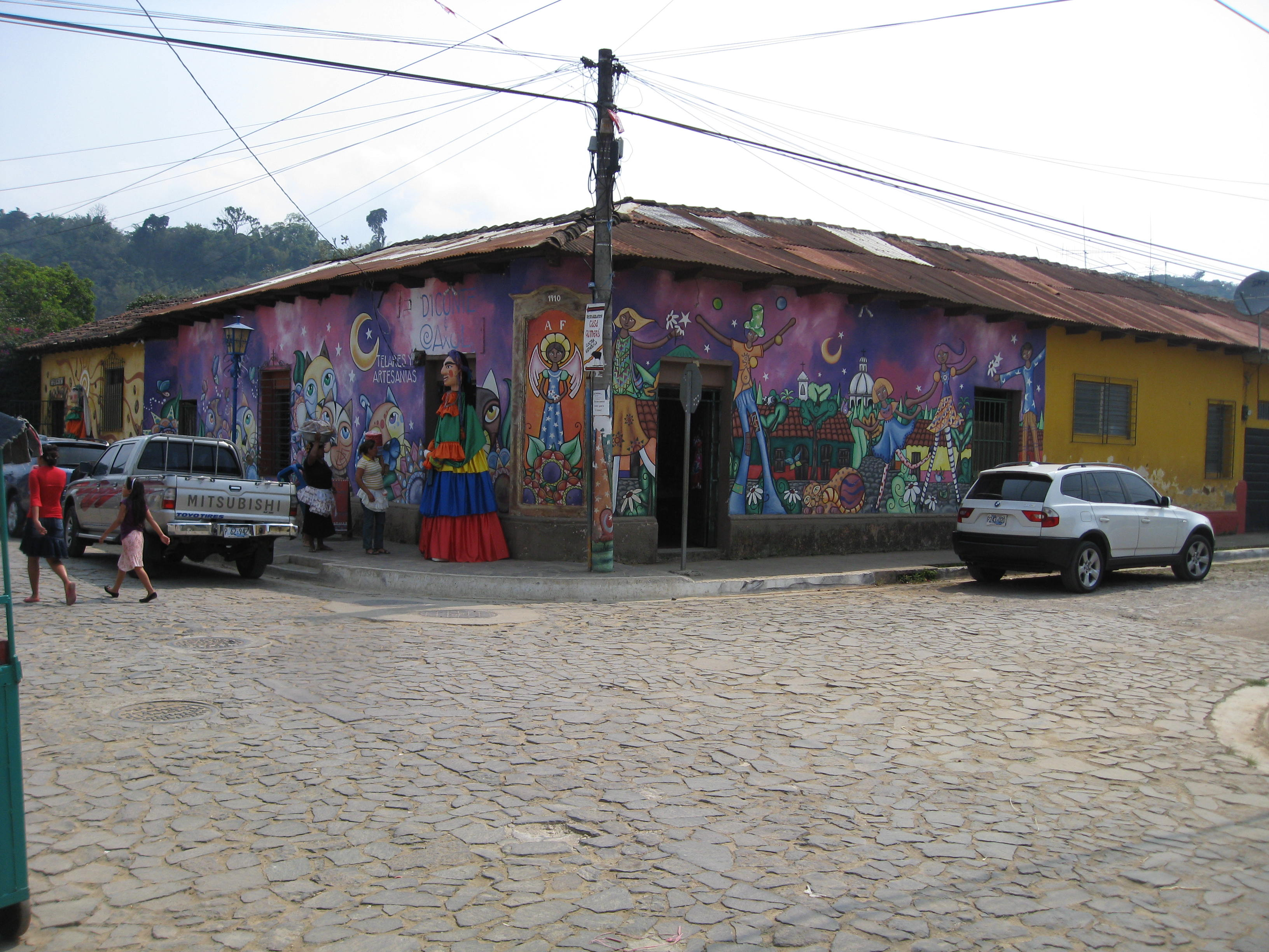 Dinconte y Axul Telarues